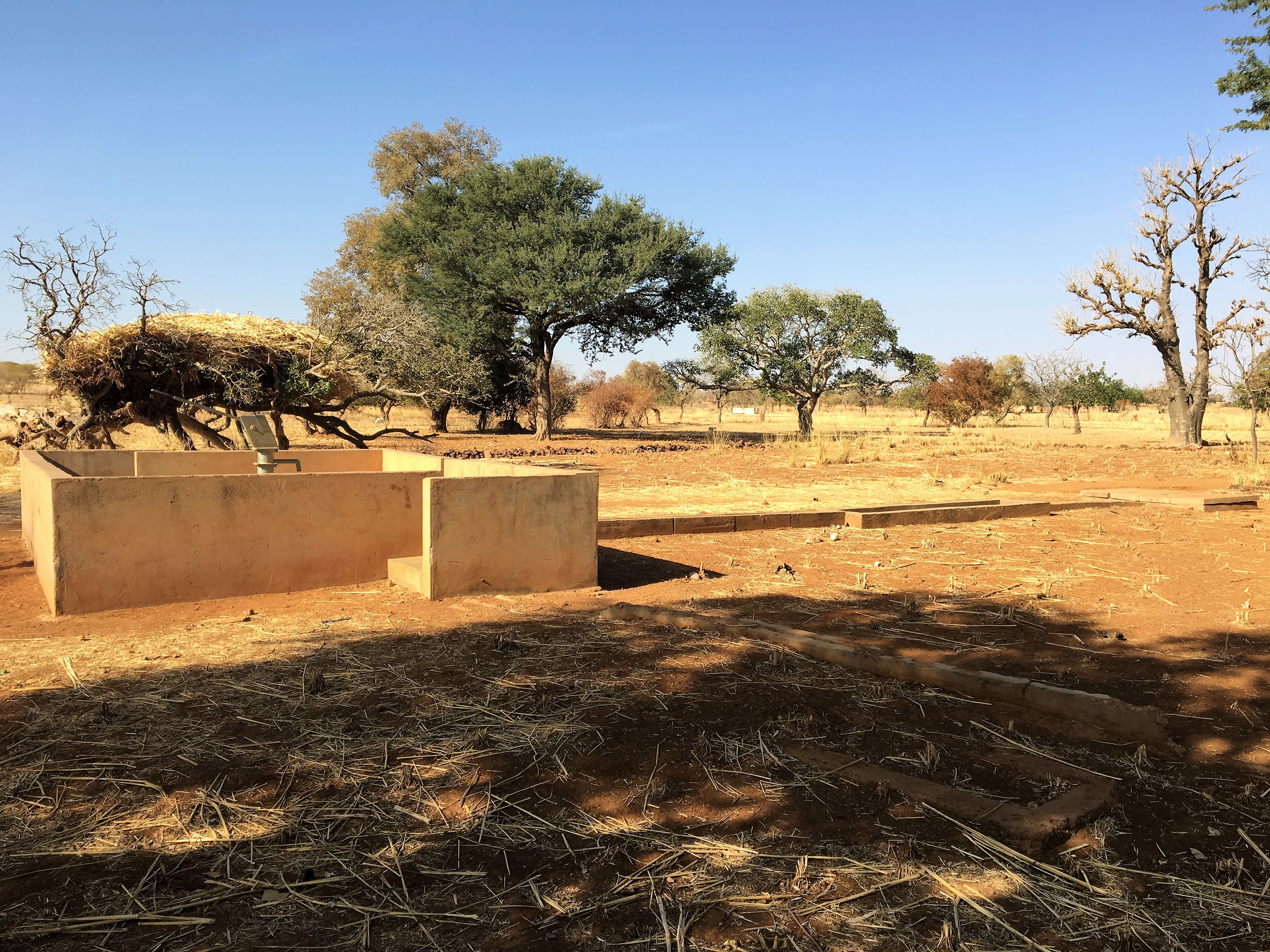 Forage de Lourgou, quartier Simandgo